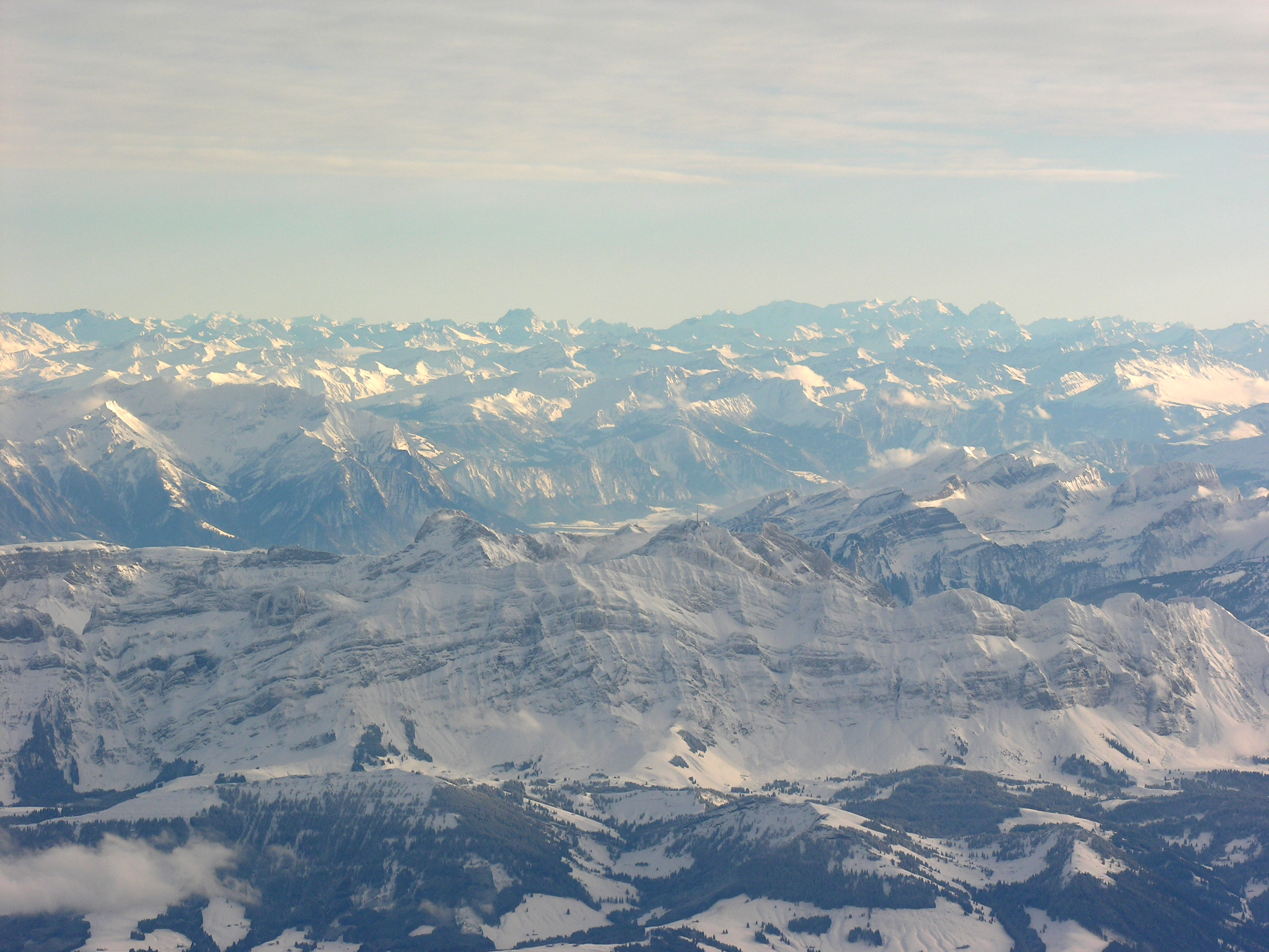 Aerial View overhead Oberbüren at 3400 m asl